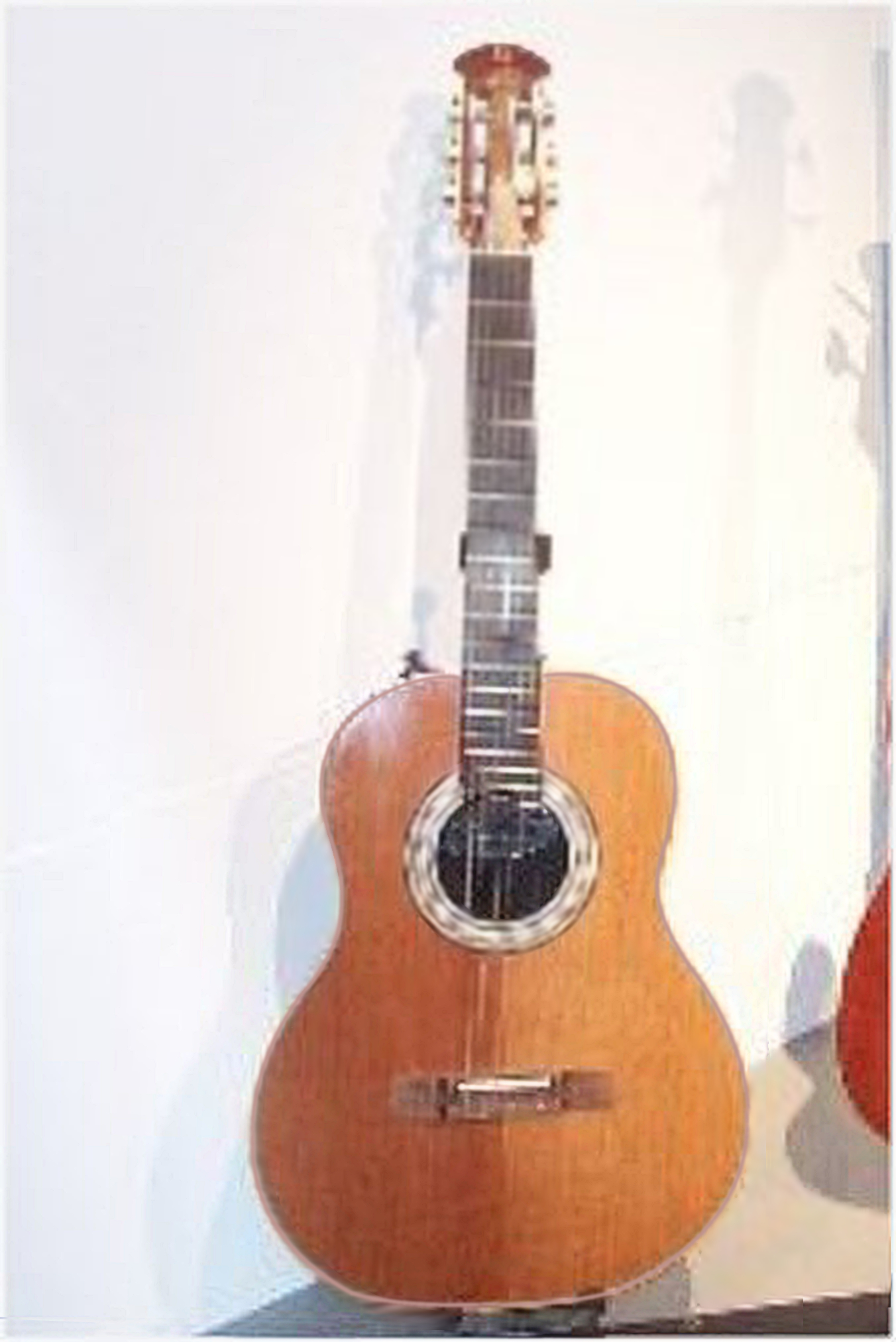 Guitar Ovation Clasical from Roger Waters' private collection. Read the story at . Lire le compte-rendu de l'expo sur